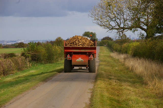 Horkstow Road. Newly lifted beet 1532030 en route to storage.